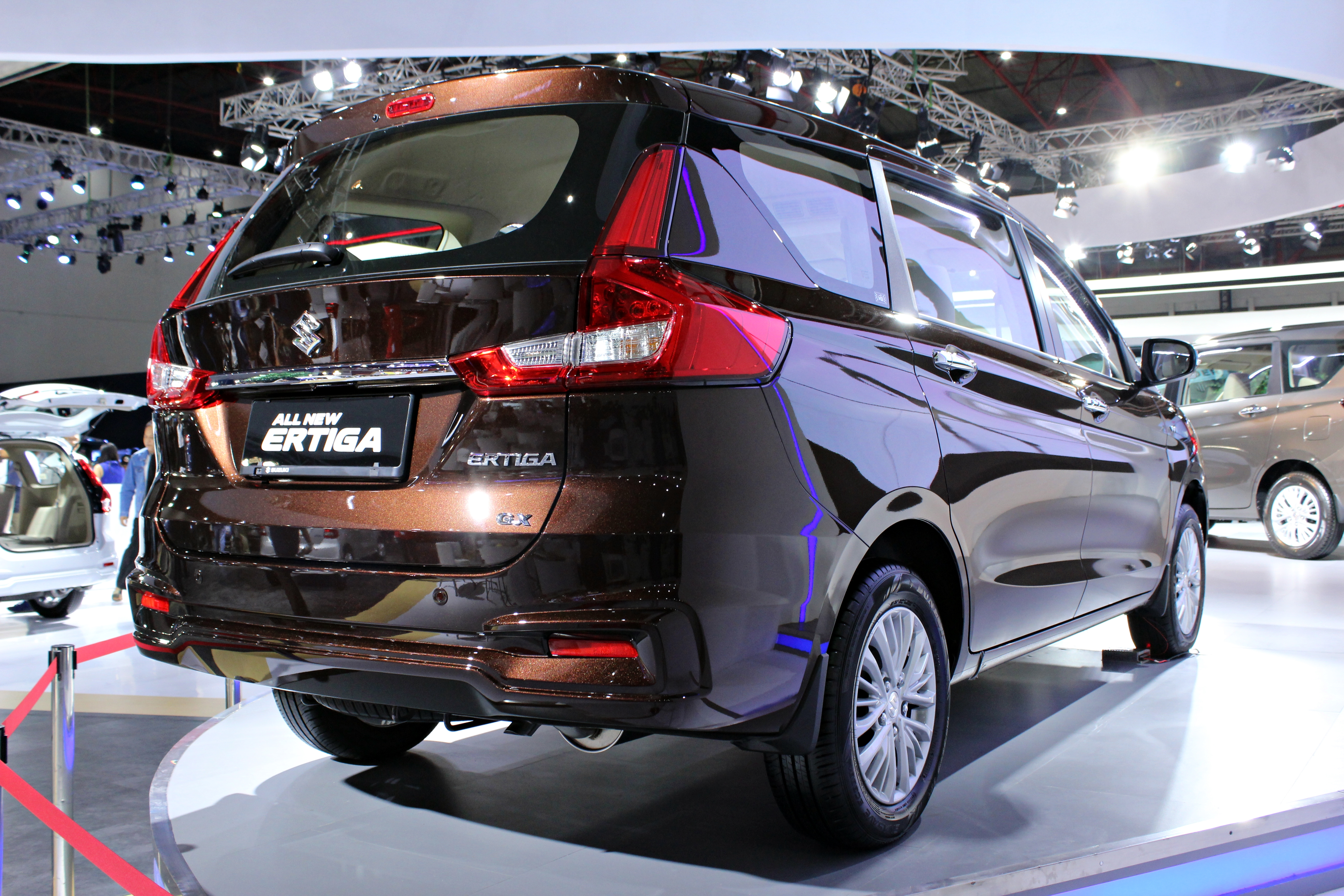 A Suzuki Ertiga GX 1.5 photographed in Indonesia International Motor Show 2018, Jakarta, Indonesia on April 26, 2018.